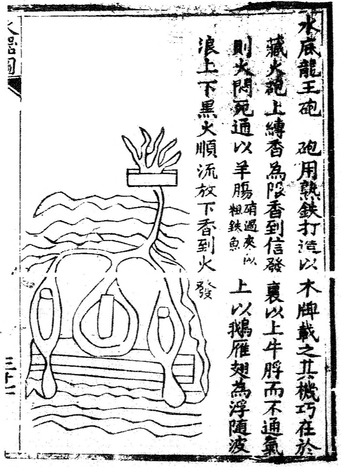 A Ming Dynasty Chinese illustration of a naval mine from the 14th century military treatise of the Huolongjing, compiled by Jiao Yu and Liu Ji, with Jiao's preface added in 1412. This particular sea mine was called the 'submarine dragon king' (shui di long wang pao). The firing mechanism consists of a floated incense-stick which lights the fuse when it burns down, this last being contained in a length of goat's intestine, and connecting with the explosive charge which is floated at a certain depth submerged below. This illustration also appears on page 206 of Joseph Needham's Science and Civilization in China: Volume 5, Part 7.